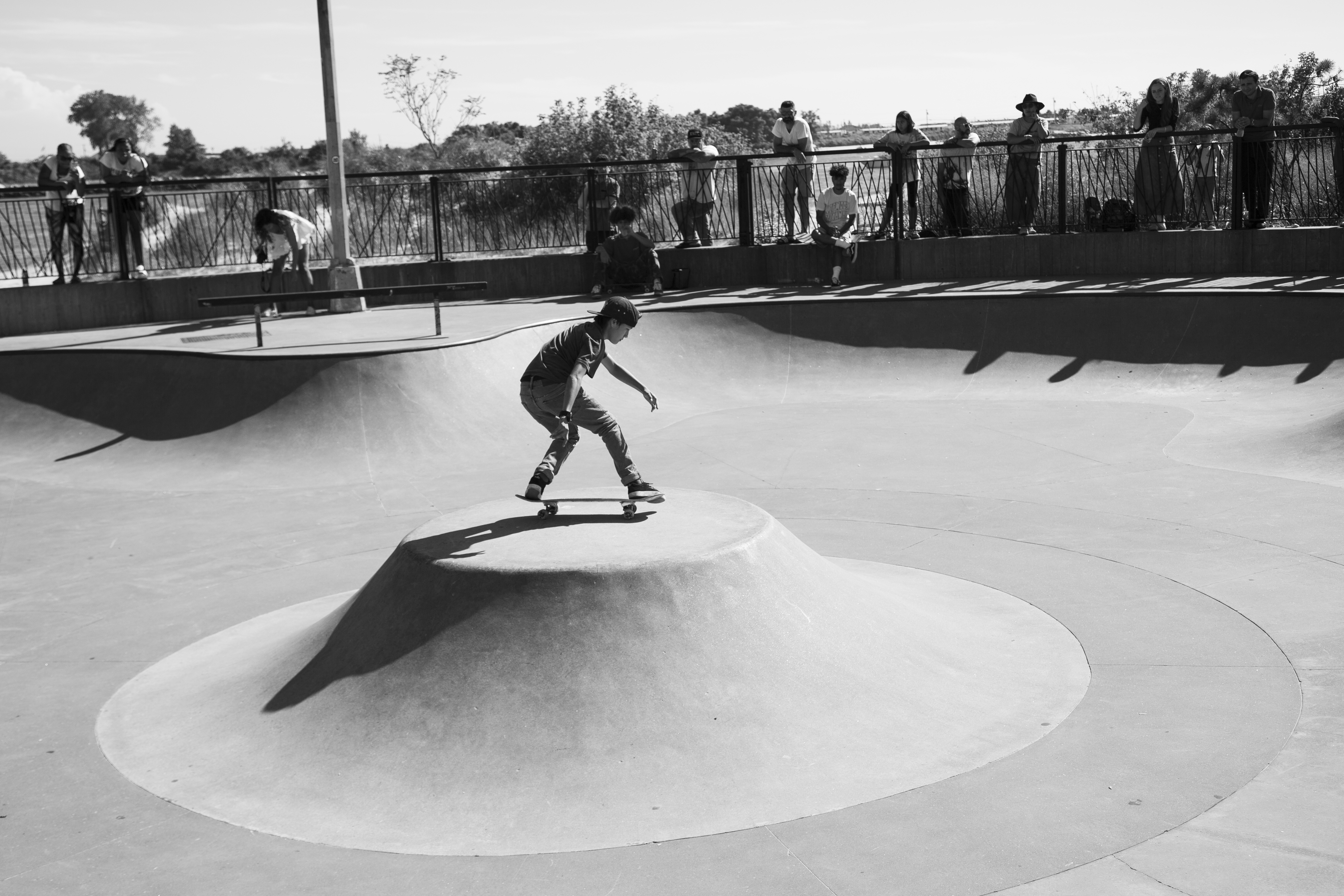 Jiro Platt hits the Volcano at the Far Rockaway Skatepark - September - 2019